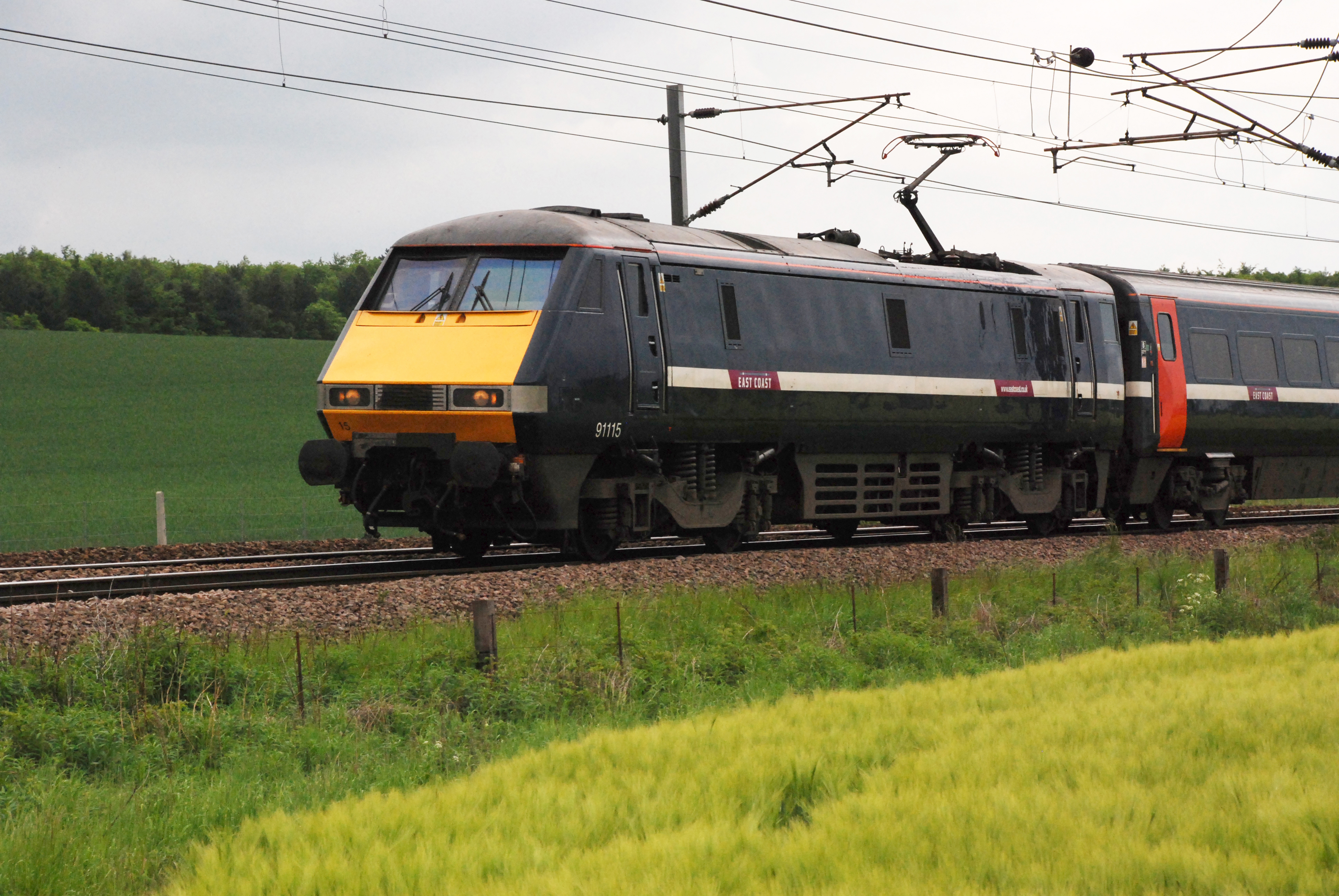 91115 in GNER debranded livery with East Coast branding speeds north near Retford. This locomotive has since been repainted into East Coast's new "Silver Link" livery.